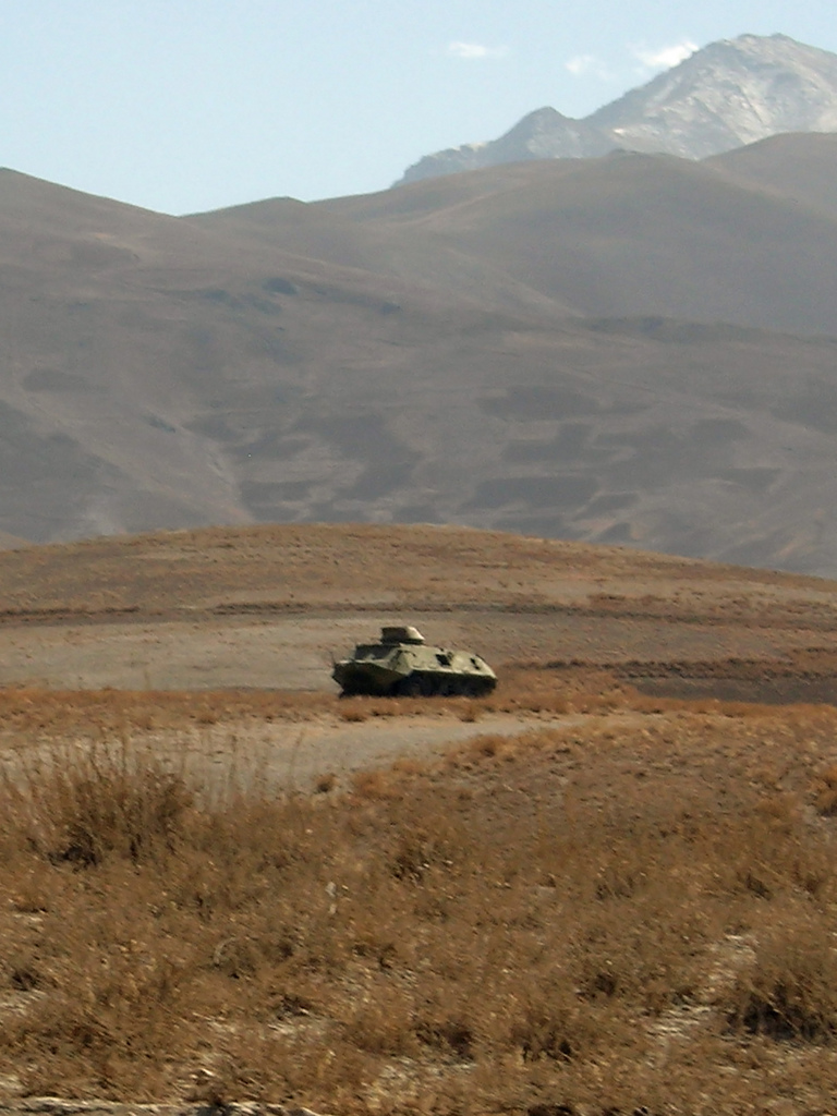 Taliban BTR-60PB in Wardak Province, just off the road between Kabul and Bamiyan.